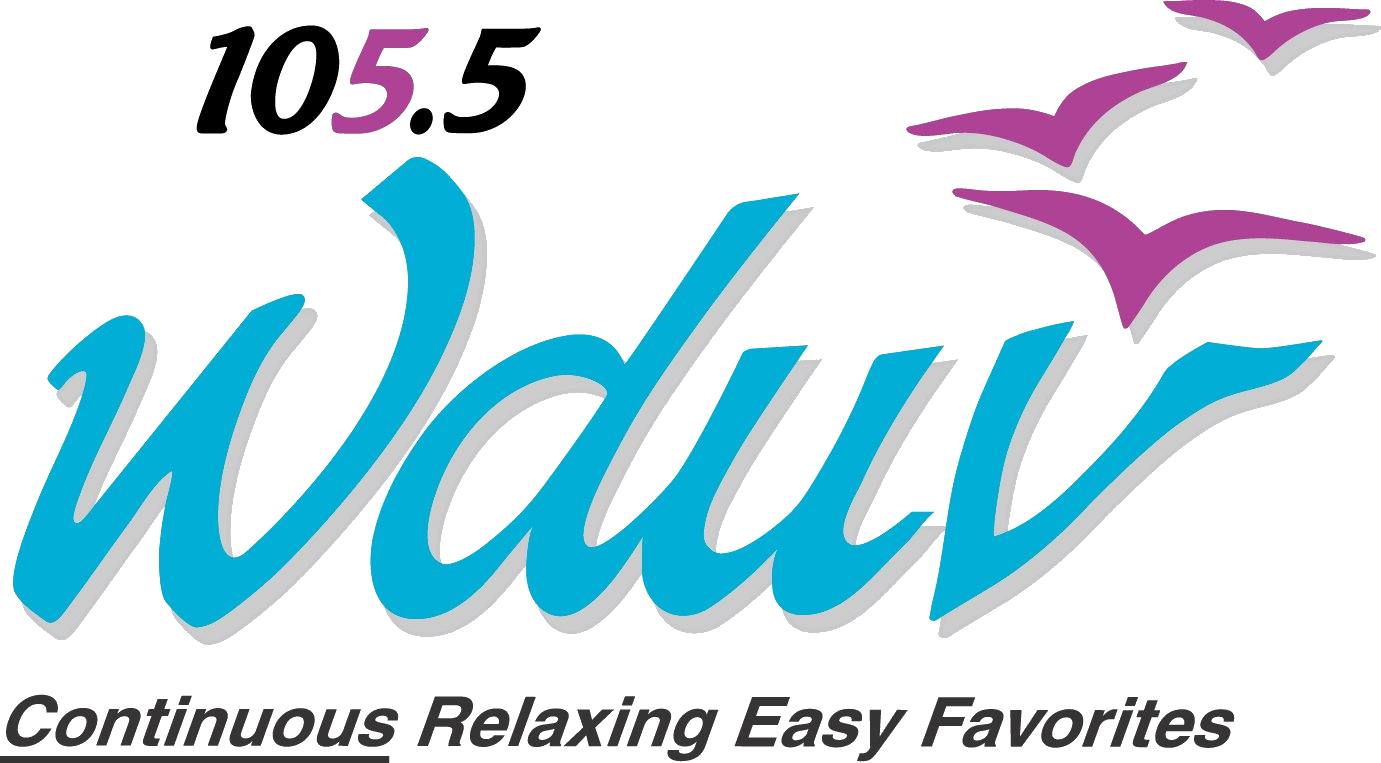 Former logo of the radio station WDUV used between July 2000 and October 2013.